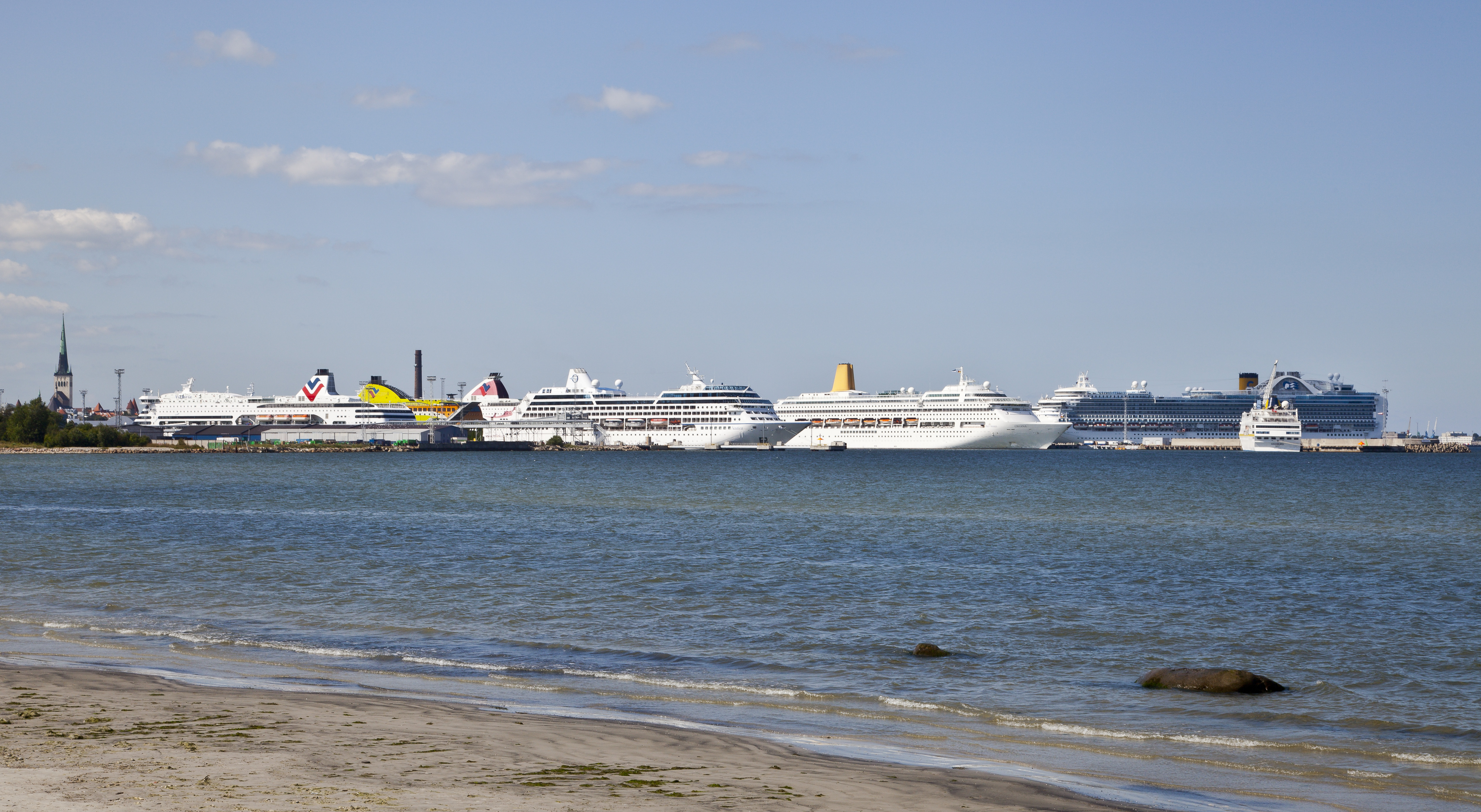 Port of Tallinn, Estonia